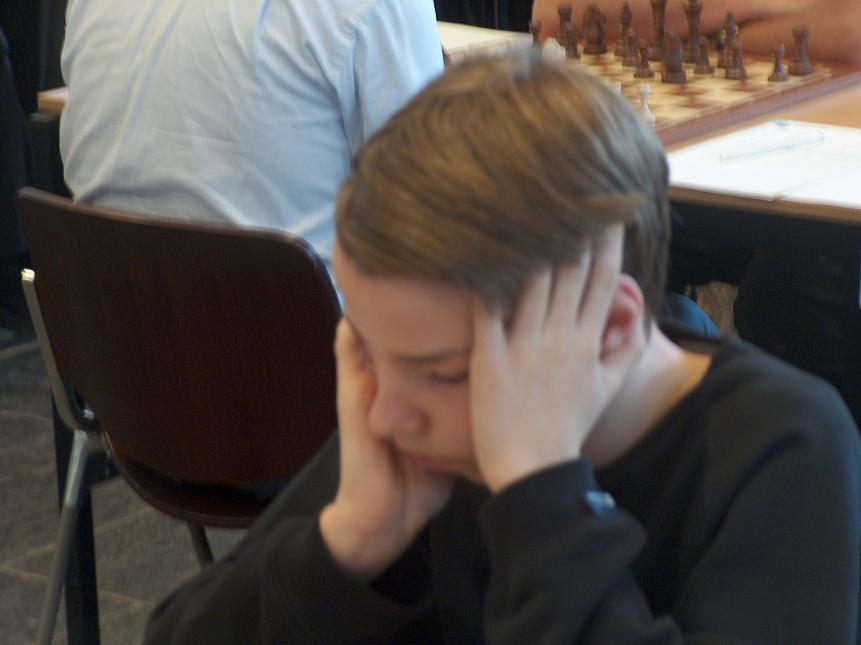 Vincent Rothuis playing in the Essent tournament, 2005.